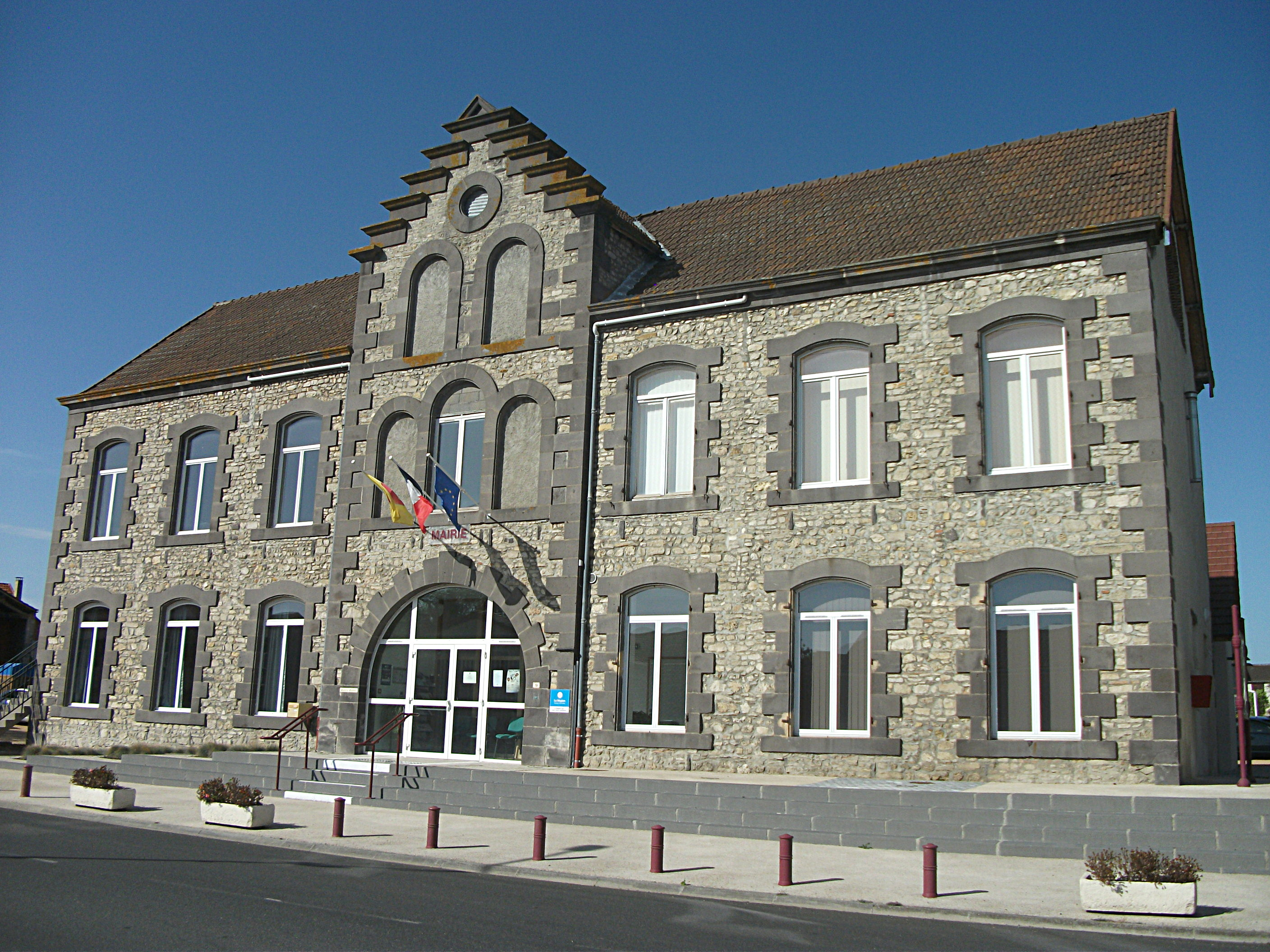 Town hall of Bas-et-Lezat, Puy-de-Dôme, Auvergne-Rhône-Alpes, France. [19288]